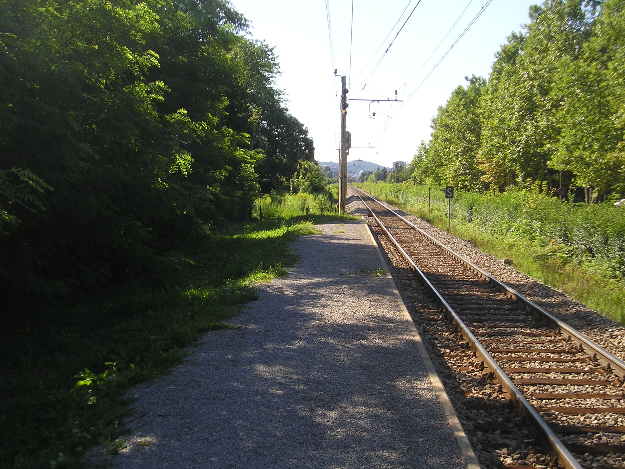 Litostroj railway stop in Ljubljana - Slovenia, looking southwards towards Ljubljana main railway station